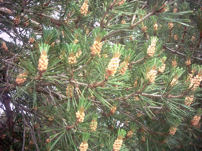 A work release by Francisco Javier Martin Lopez, Pinus sylvestris subsp nevadensis, in Sierra de la Alfaguara, into Parque Natural de la Sierra de Huétor, Granada, Spain 2006, May 31. A free donation to Wikipedia.